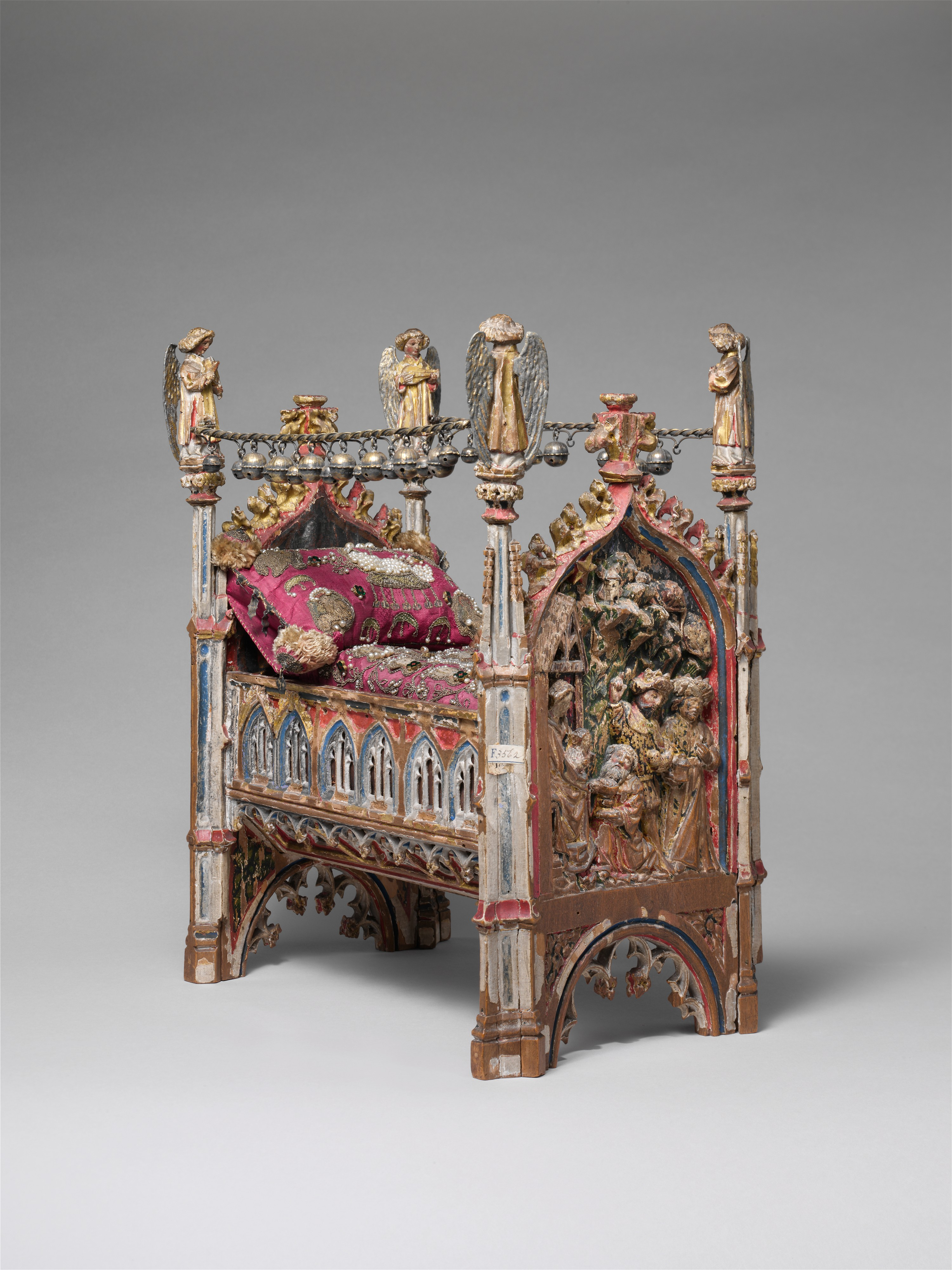 South Netherlandish; Crib; Woodwork